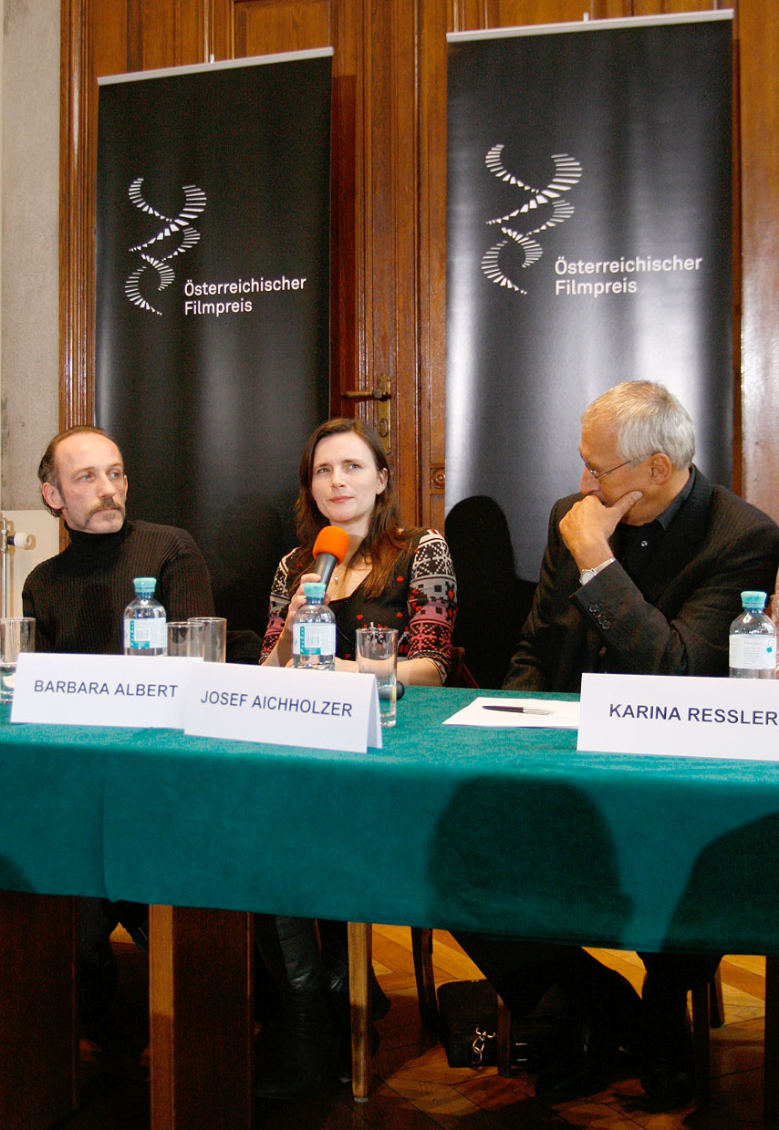 Barbara Albert, Karl Markovics and Josef Aichholzer during the press conference in advance of the Austrian Film Awards 2011 at the Odeon theater in Vienna.